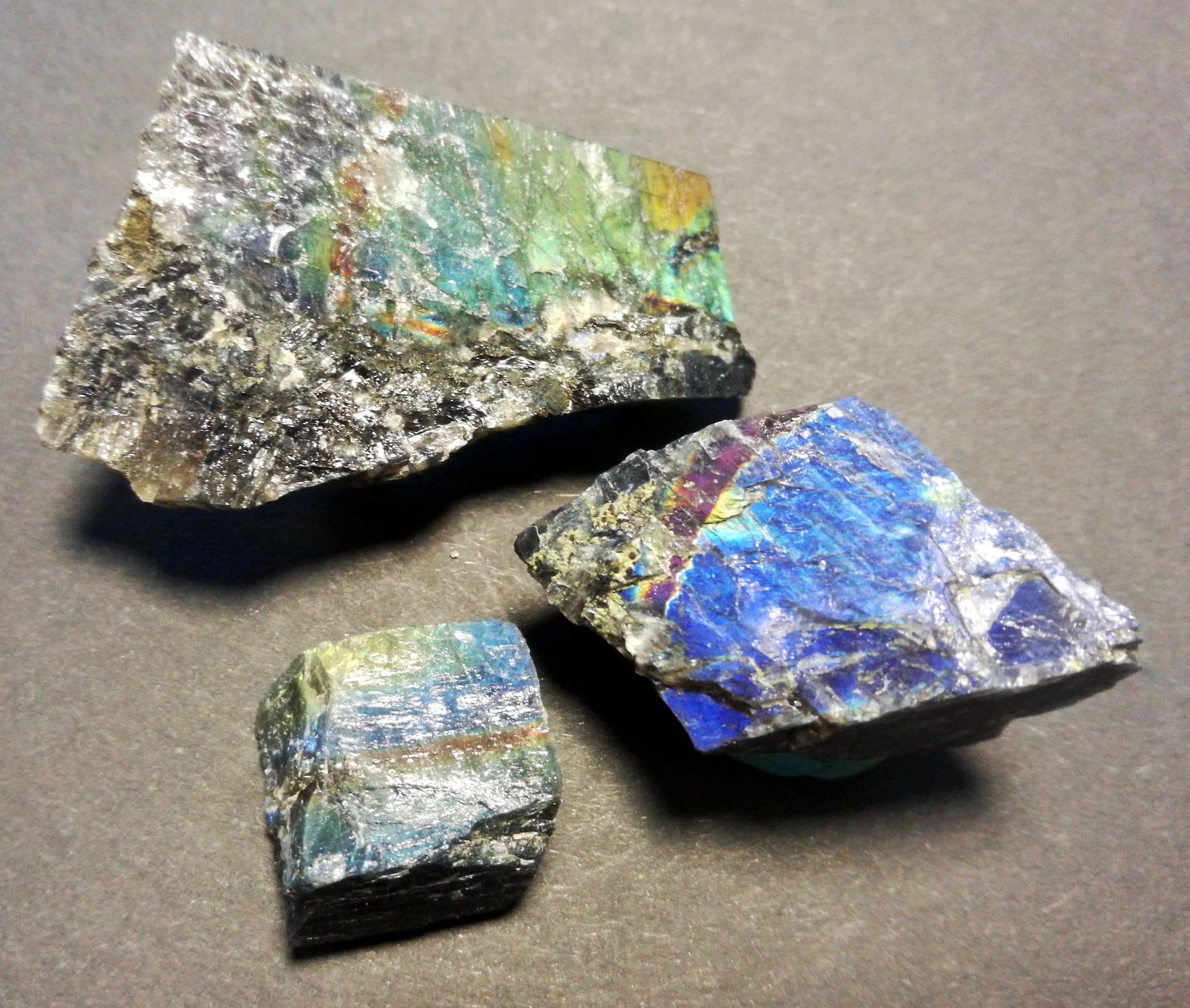 Typical specimens of spectrolite (a labradorite variety) from Ylämaa, Finland